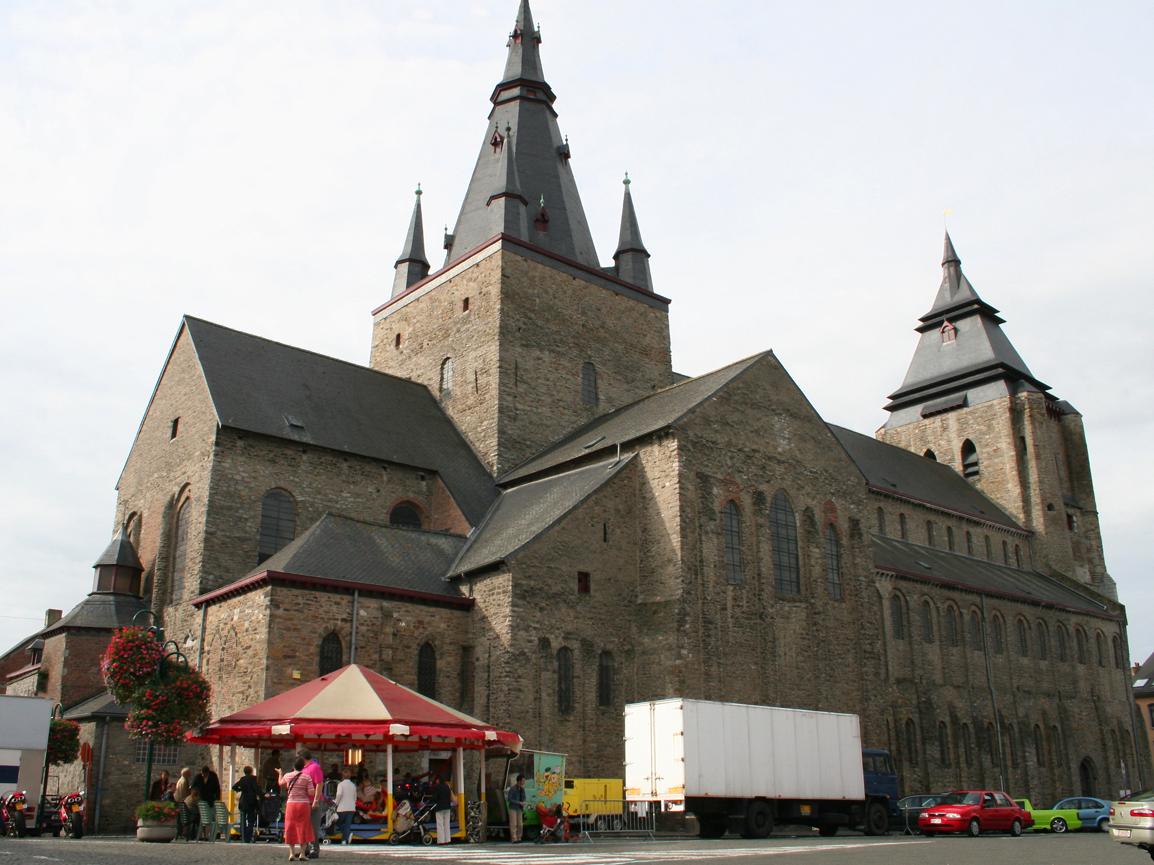 Soignies (Belgique), the Saint-Vincent's collegiate church (Xe siècle) seen from the Grand'Place.